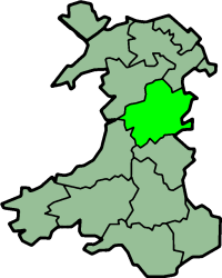 Montgomeryshire, one of the historic counties of Wales